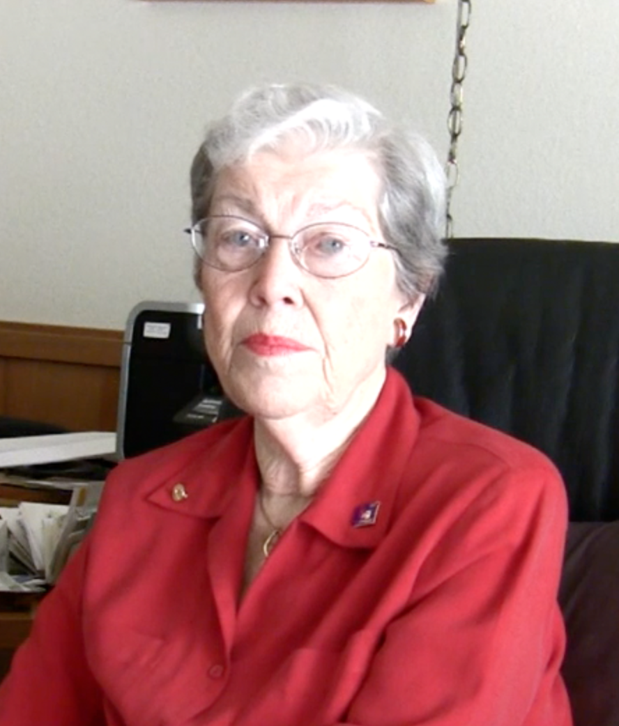 Image of chemist Darleane C. Hoffman, from an oral history interview with the Chemical Heritage Foundation, Philadelphia, PA, USA, in which she discusses her career. She was interviewed in 2012.